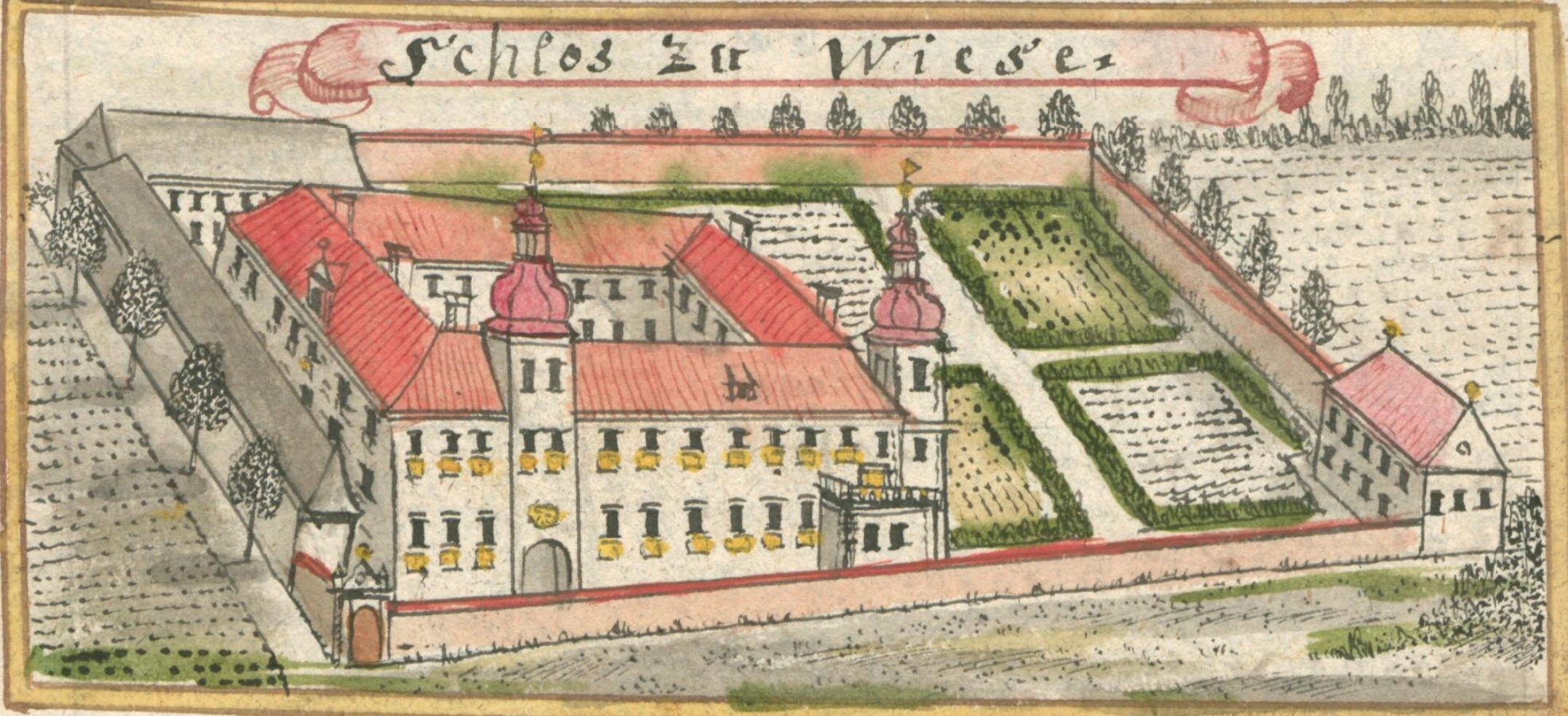 Palace of Mettich family in Gräflich Wiese (Łąka Prudnicka)